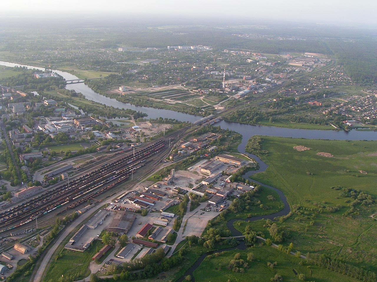 Jelgava Aerial View. Railway station, warehouses, Parlielupe